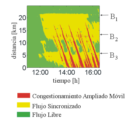 Traffic Pattern